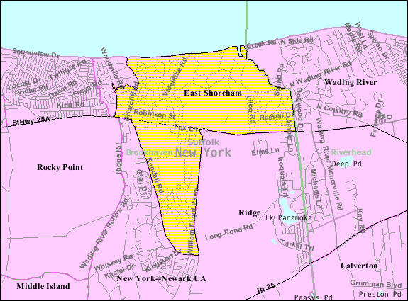 East Shoreham map from U.S. Census